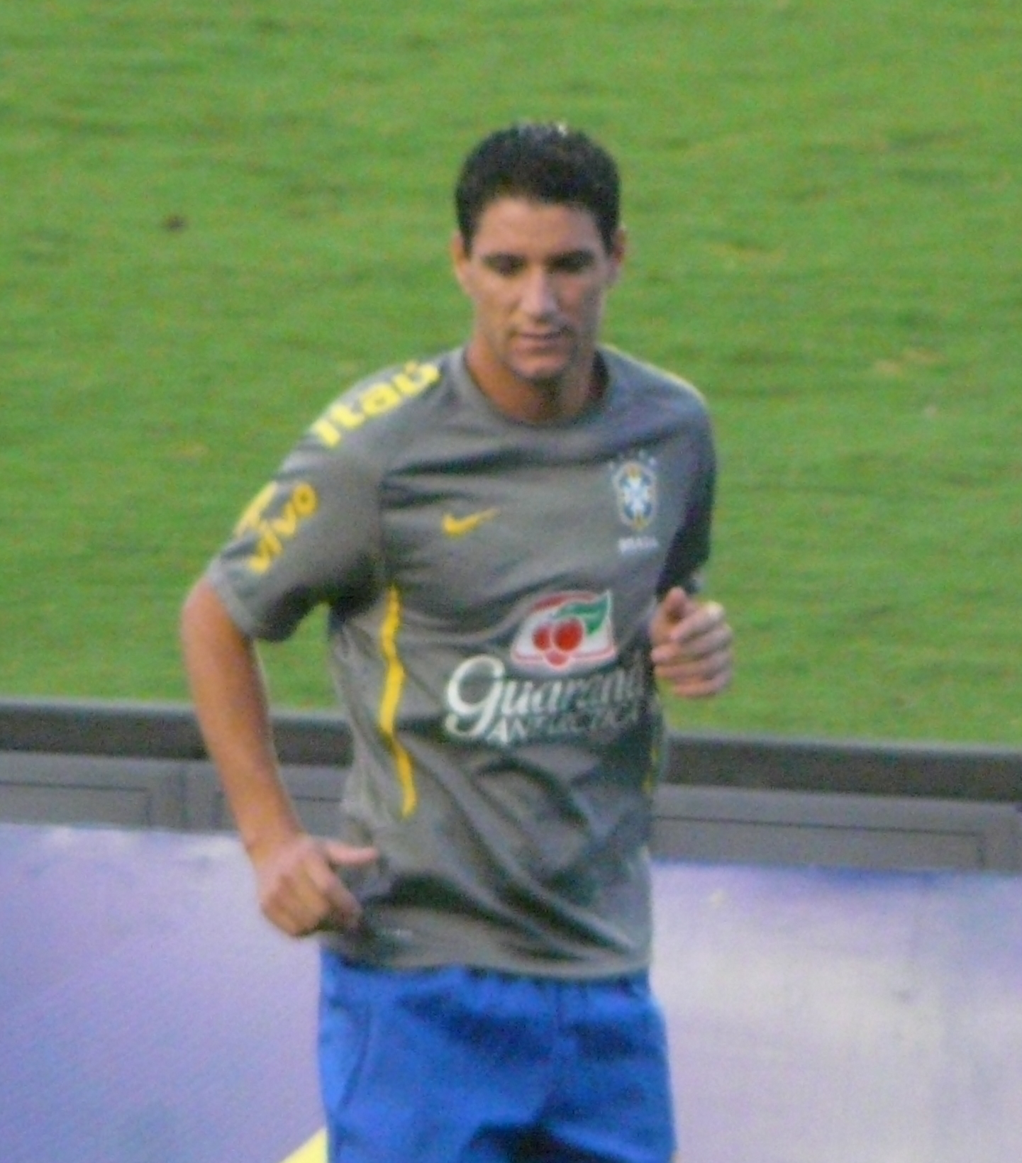 (Brasil 0X0 Holanda)